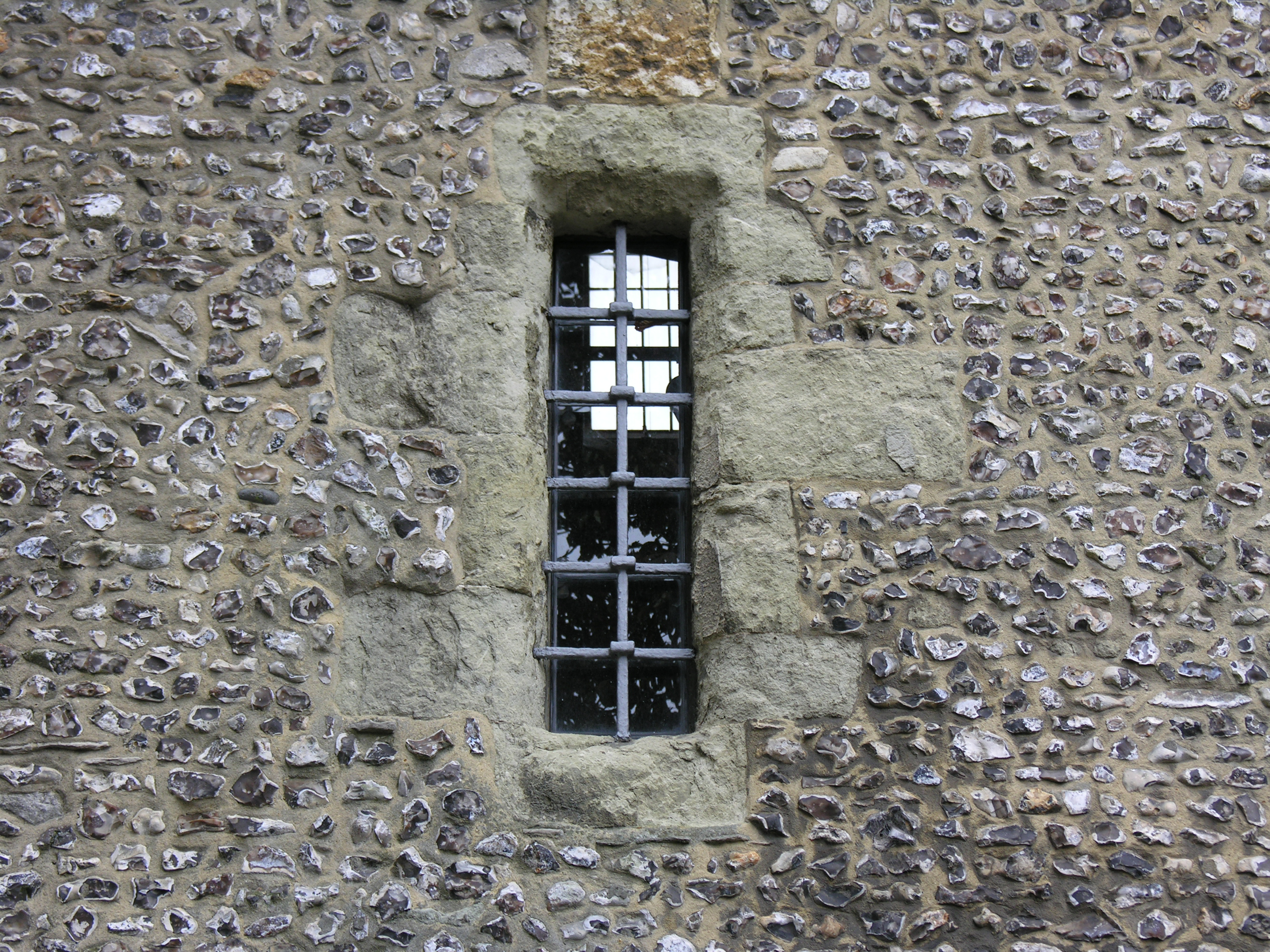 A boulder wall made of flint. Winchester, England.